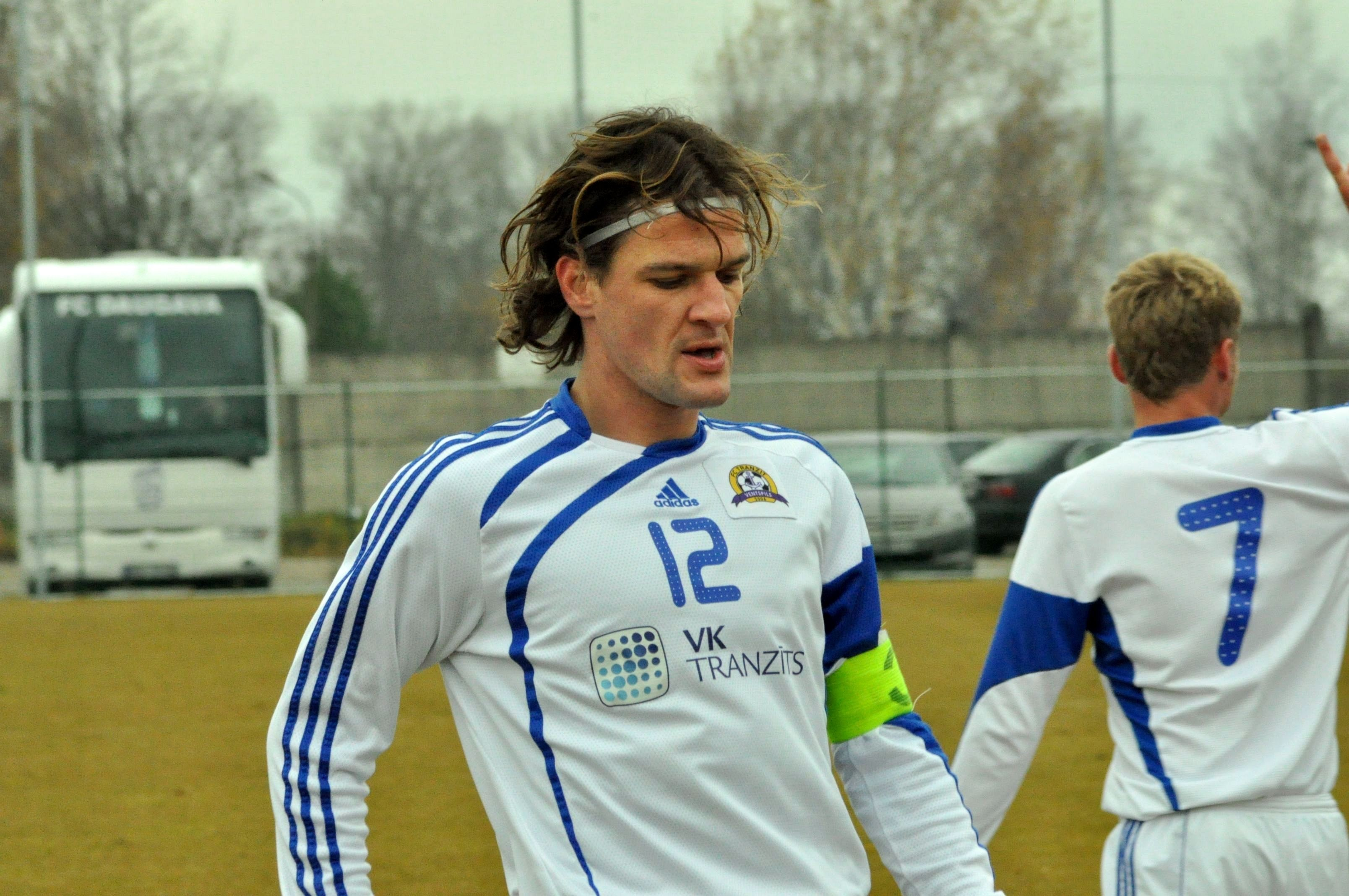 Māris Smirnovs, Latvian football player.